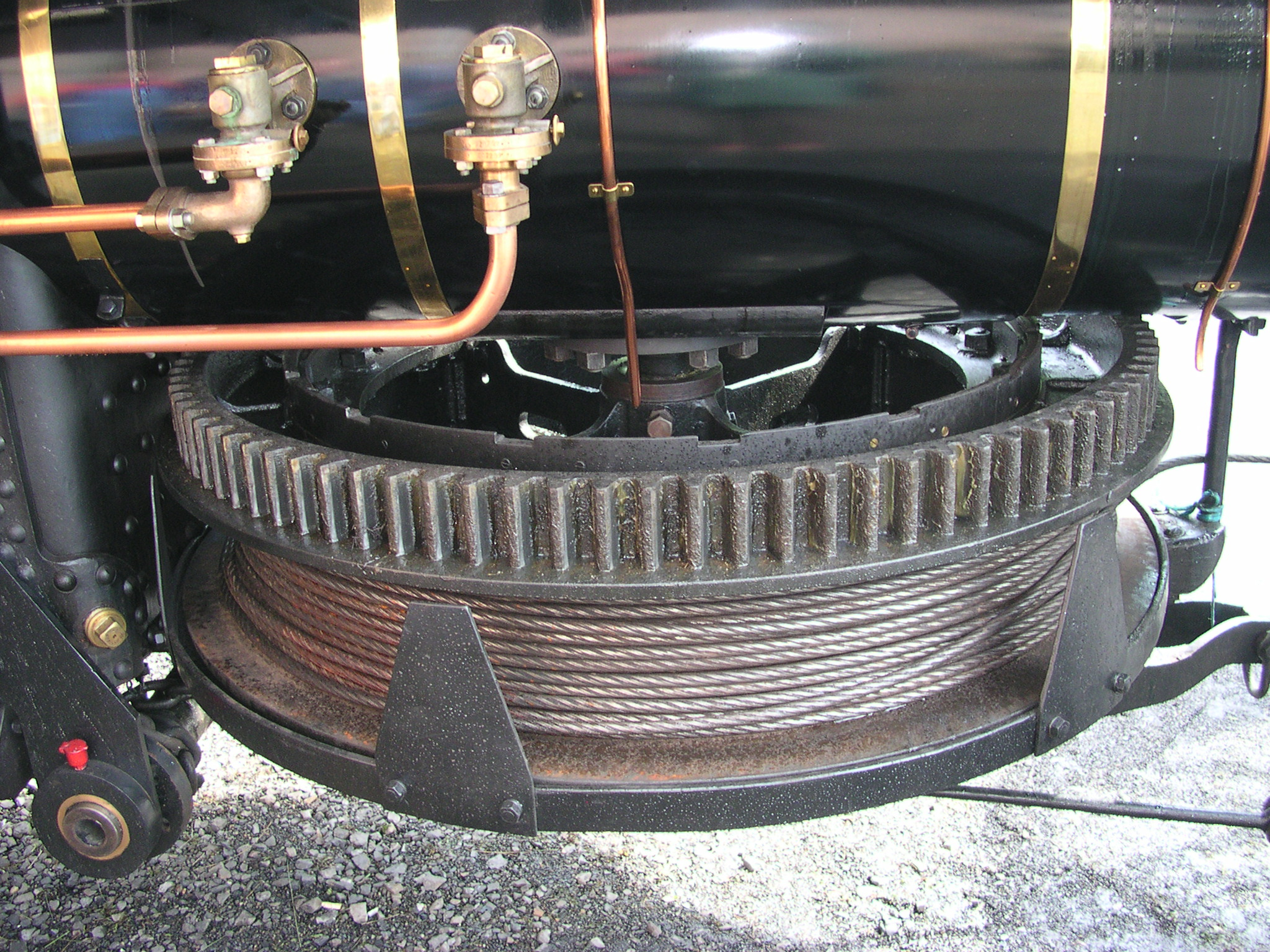 5th steam festival in Bochum, Germany 2007